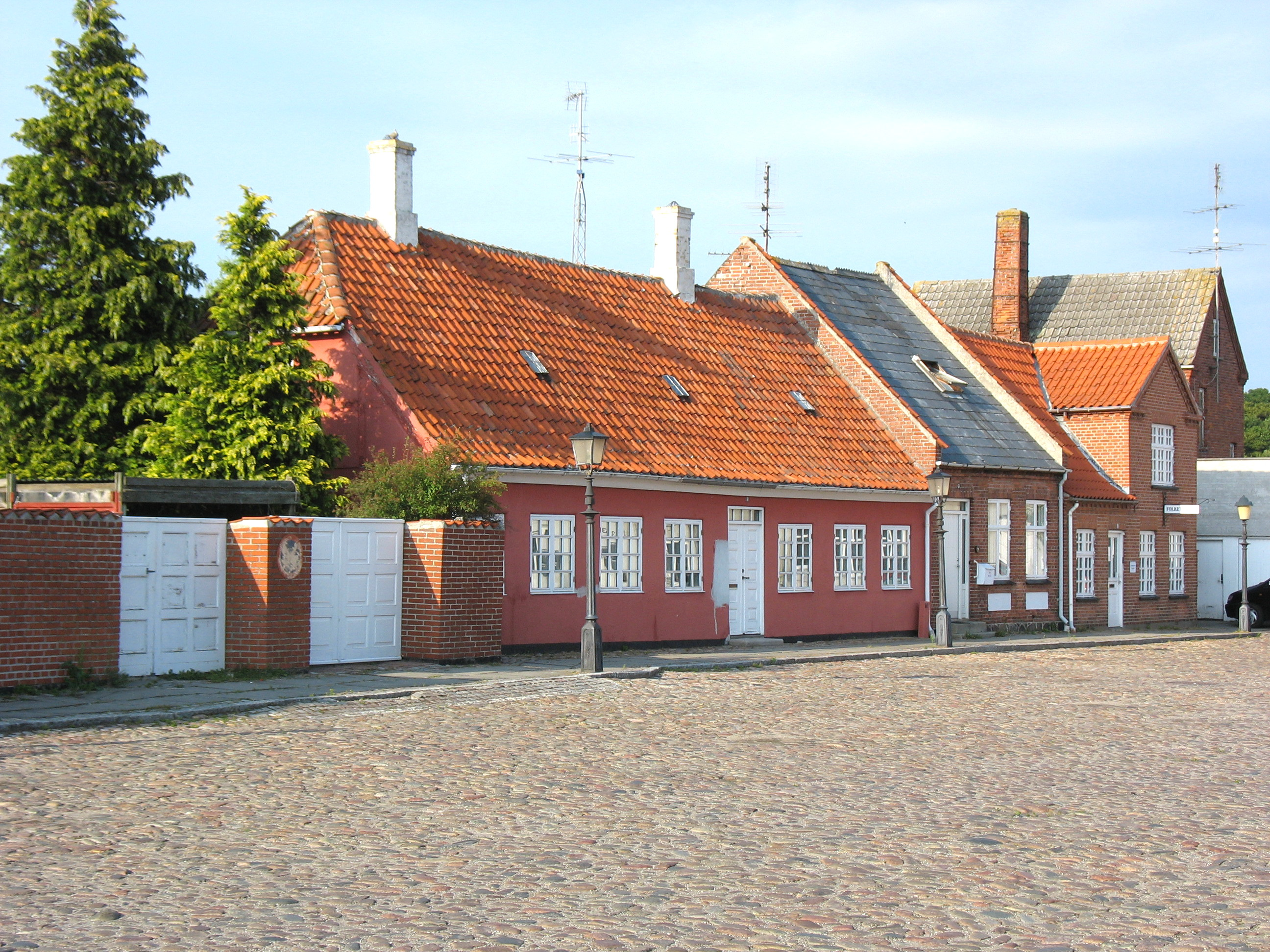 The old square in the small town "Rødby" located on the island Lolland in east Denmark.